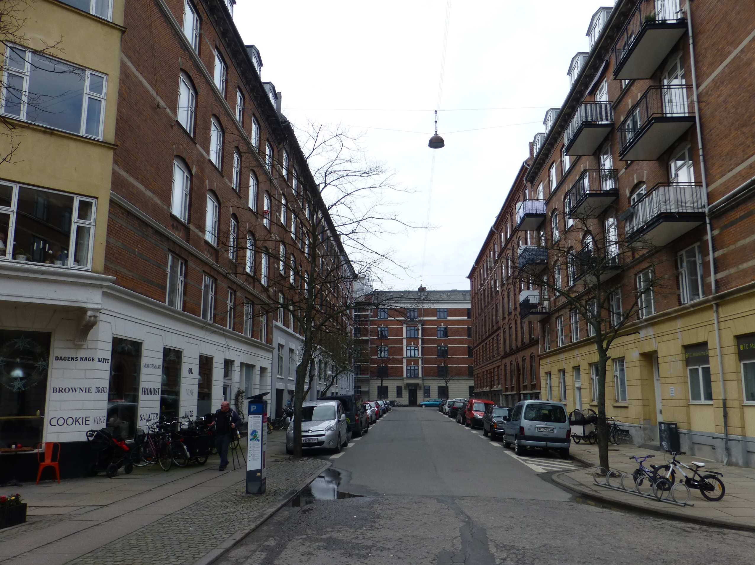 The street Marstalsgade in Østerbro in Copenhagen.